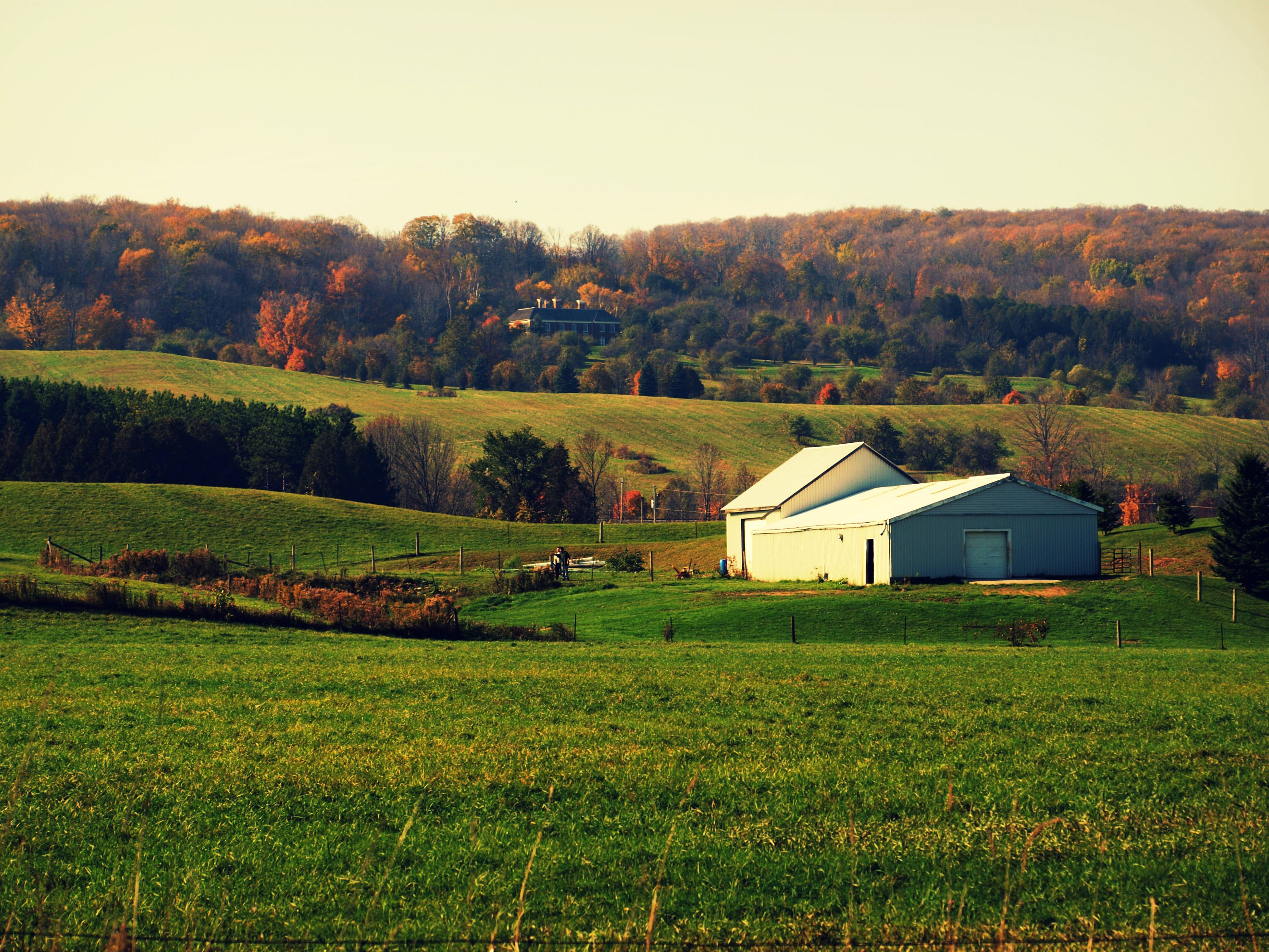 Caledon, Ontario, Canada